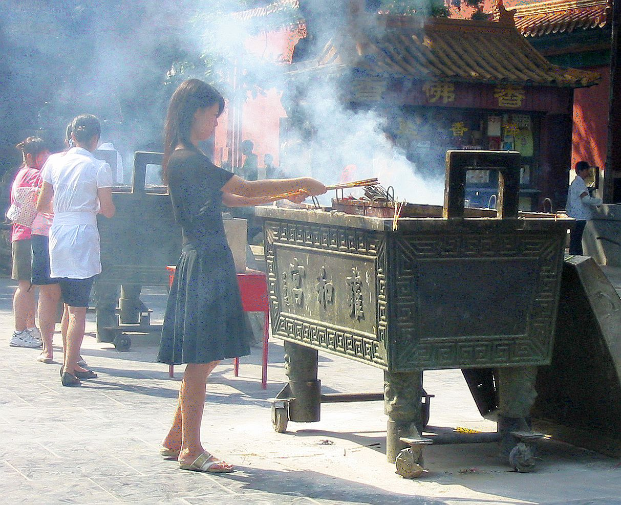 Burning incense in the Lama Temple Beijing